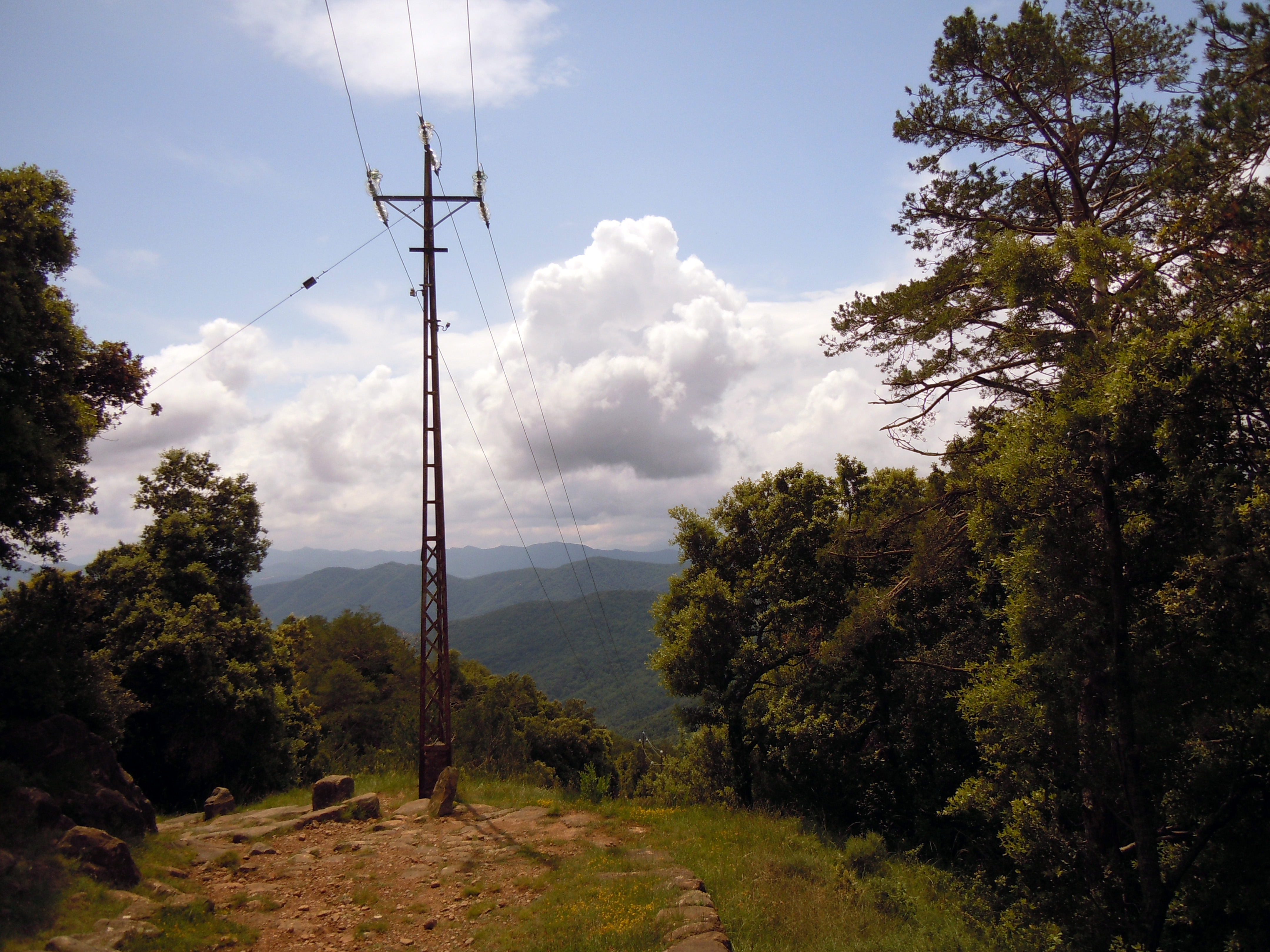 Roman way of Capsacosta